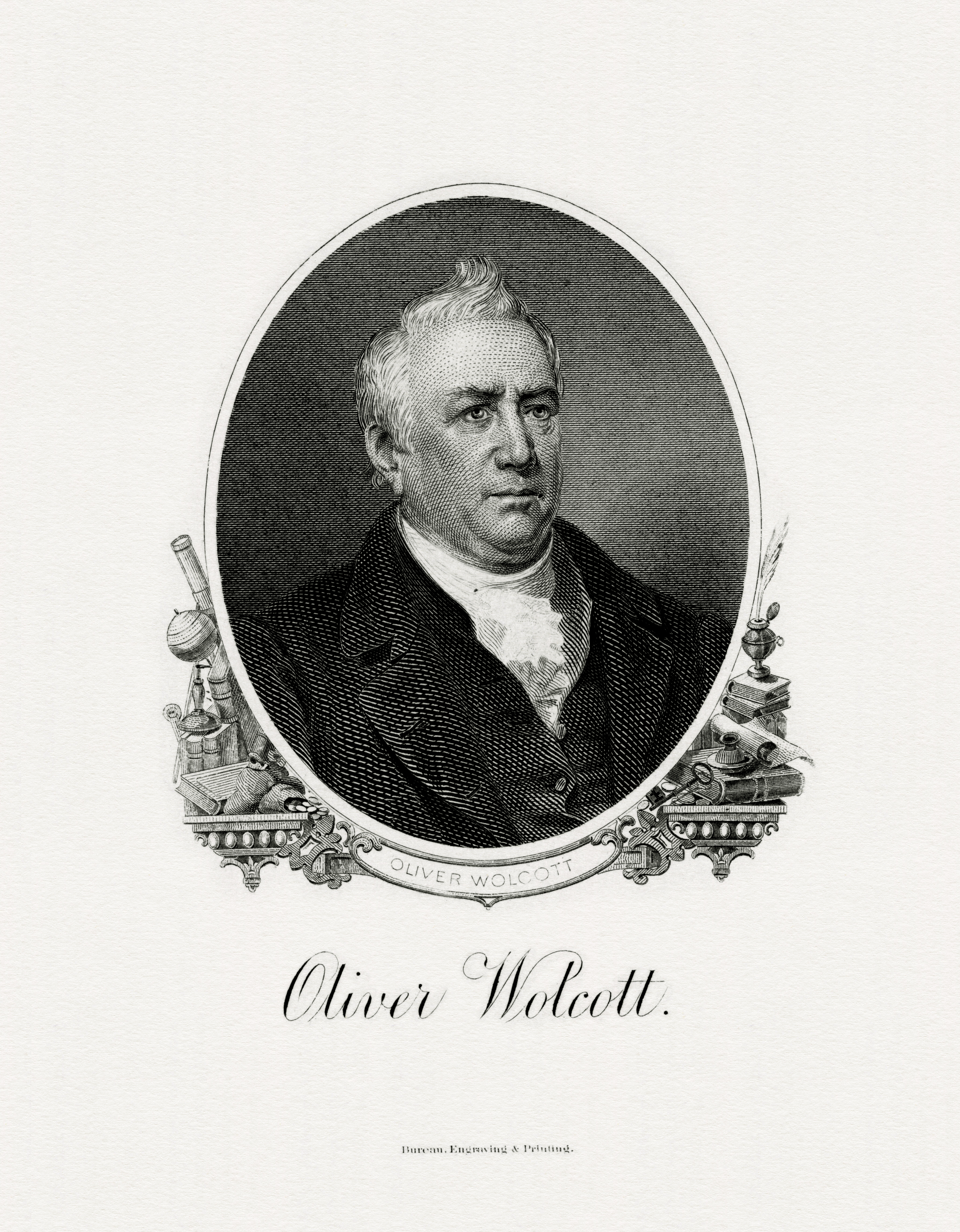 Engraved BEP portrait of U.S. Secretary of the Treasury Oliver Wolcott, Jr.